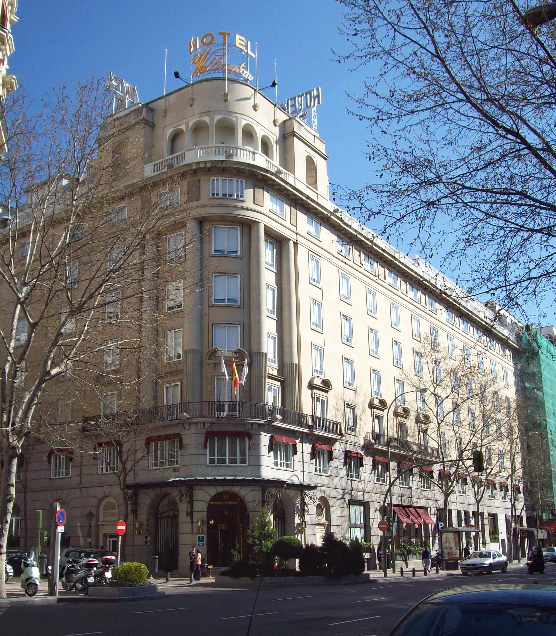 Façade of Hotel Wellington in Madrid (Spain), at 8 Calle de Velázquez (street, Salamanca district). Building was projected in 1948 by Luis Blanco-Soler Pérez and built between 1948 and 1952.